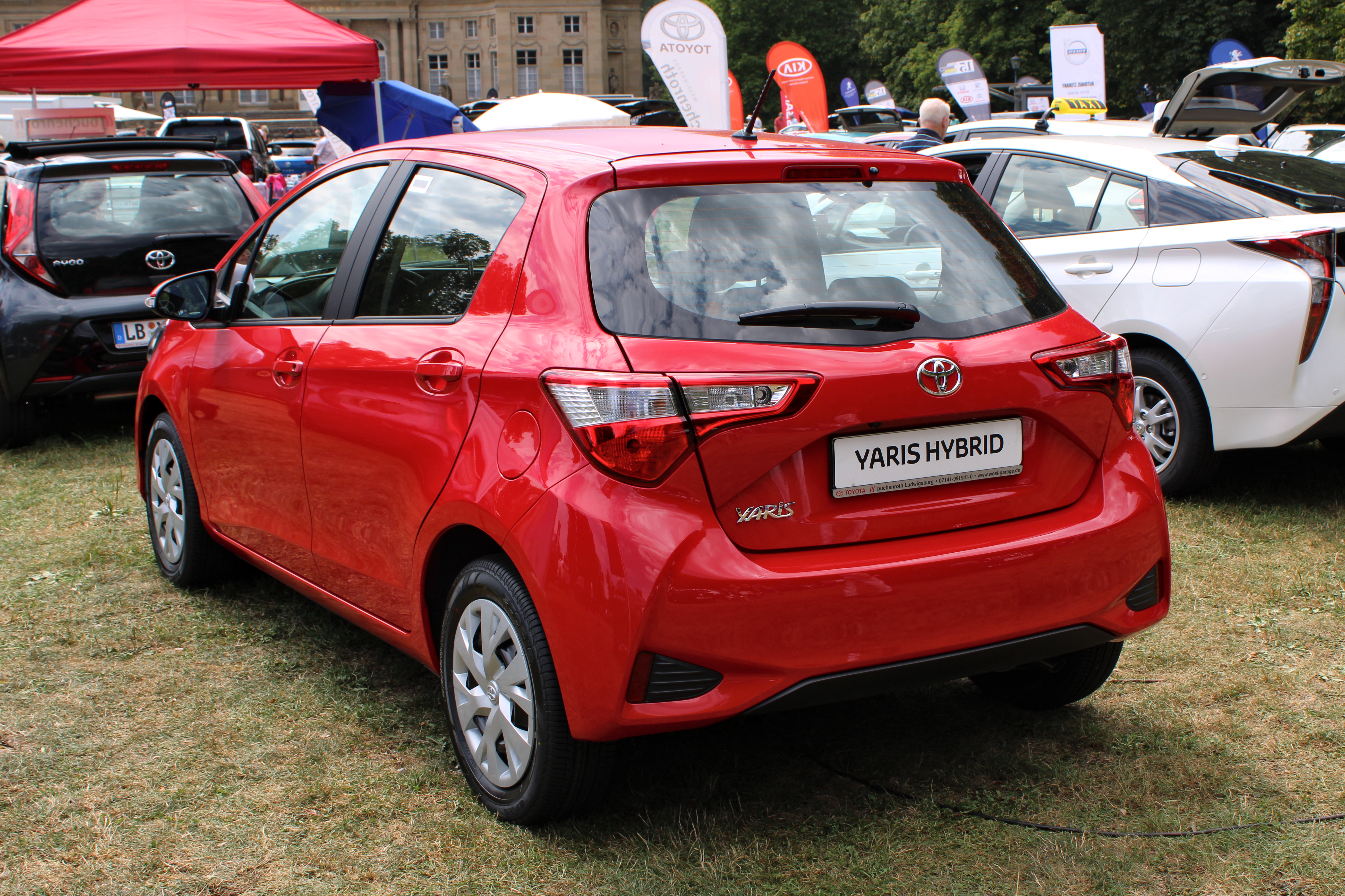 Toyota Yaris Hybrid at schloss Monrepos